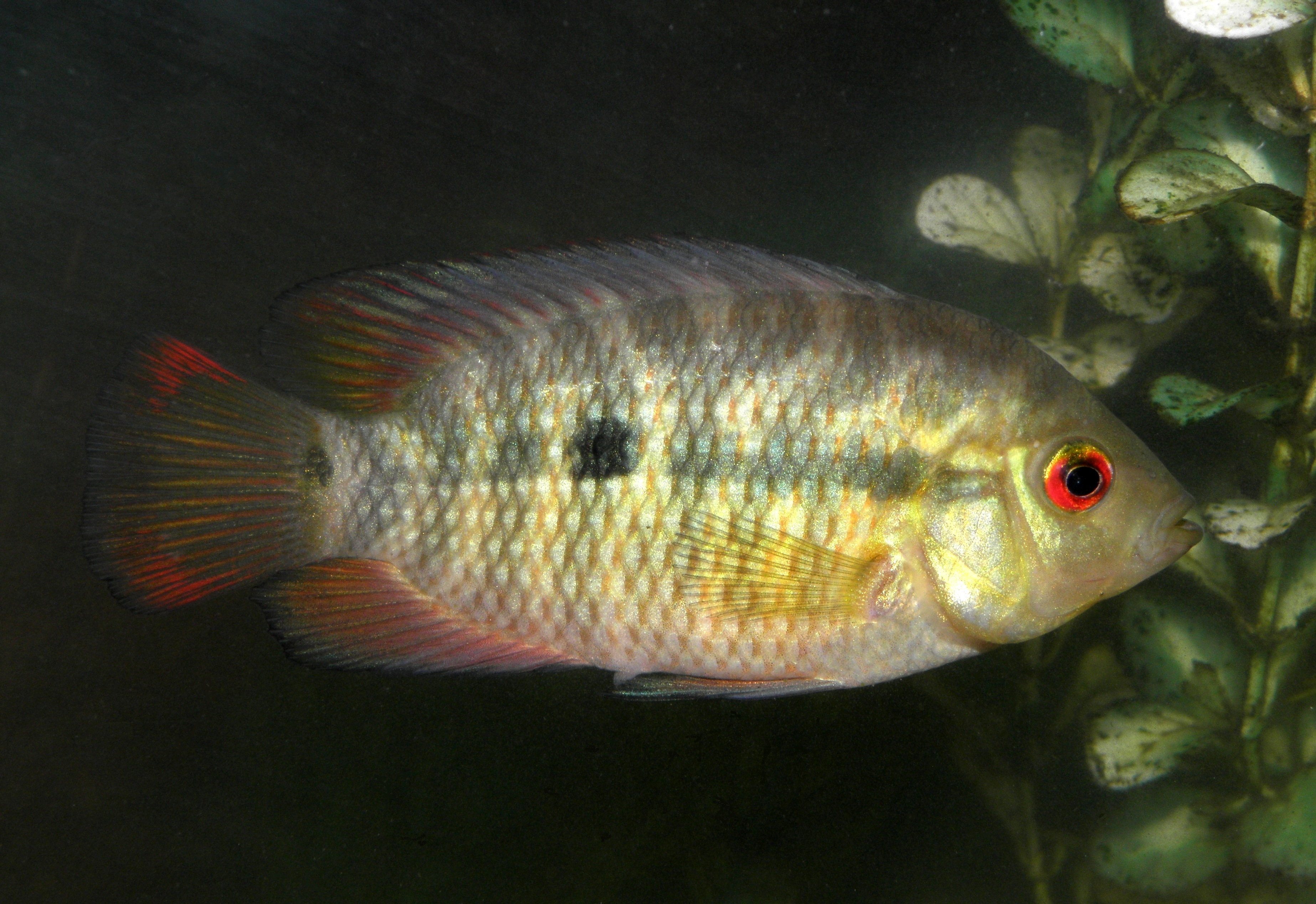 Australoheros facetus -breeding coloration-.